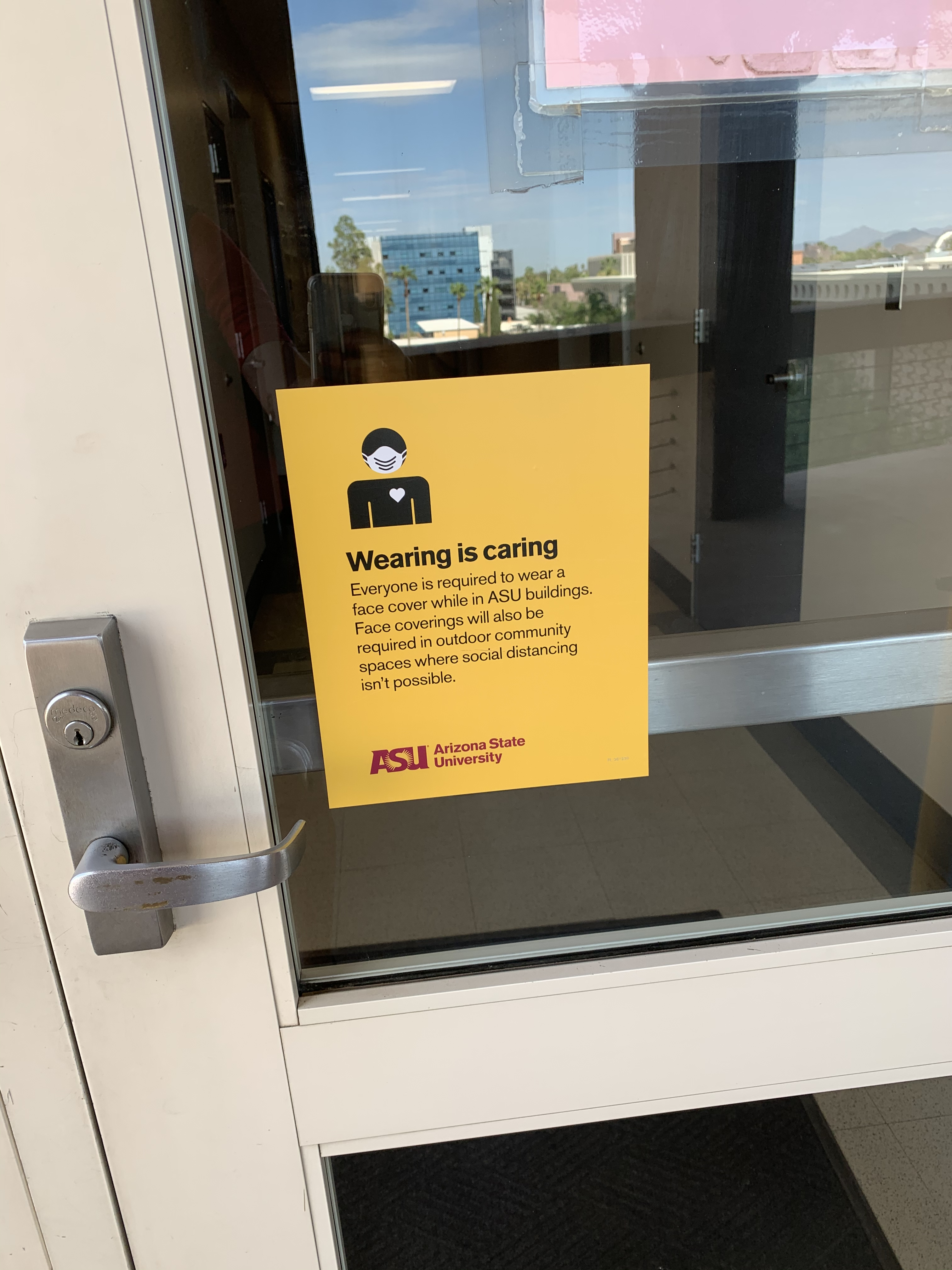 Sign posted at Arizona State University about the requirement to wear a face covering during the COVID-19 pandemic.